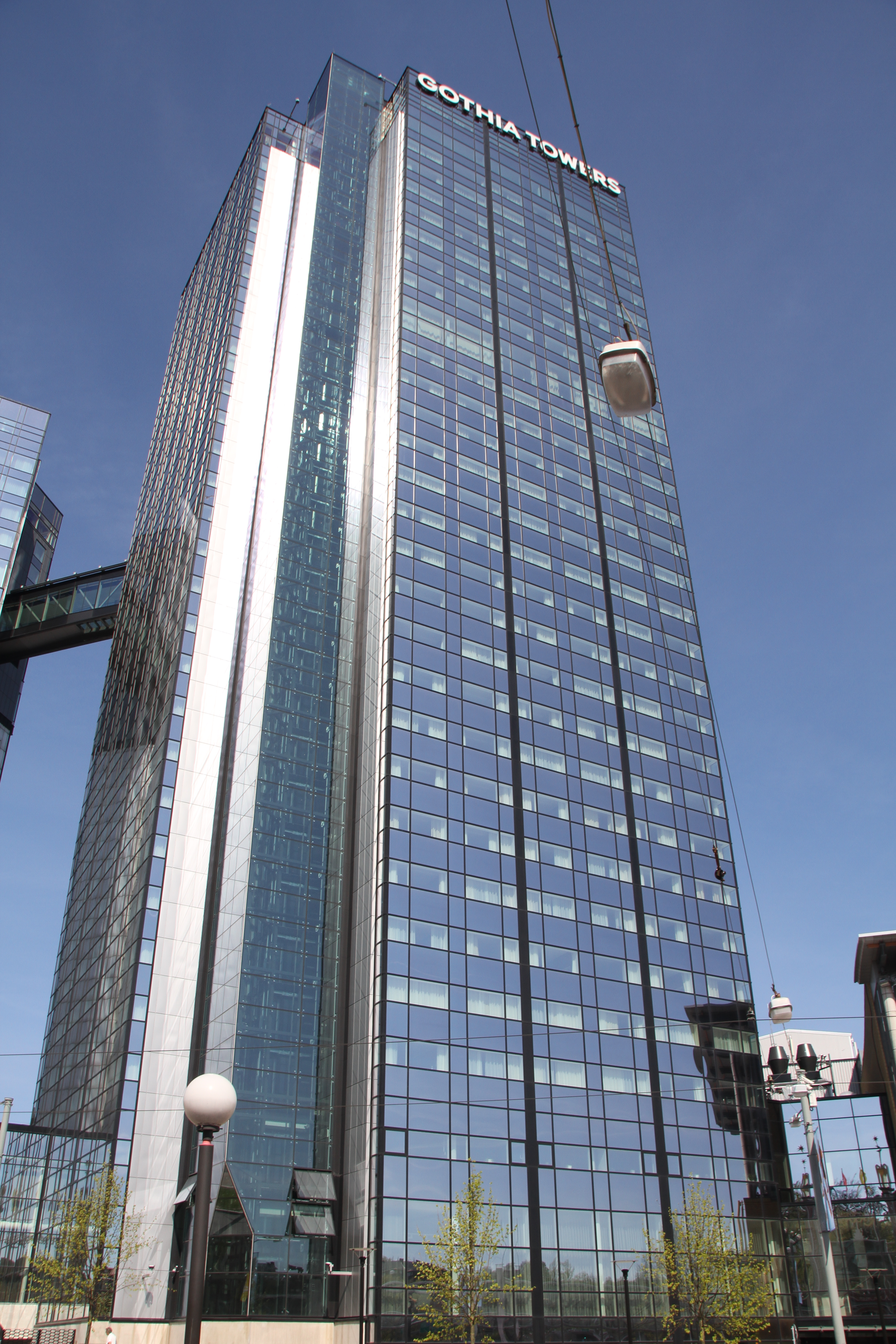 Scandinaveum Convention center contains the Hotel Gothia Towers and the original "Svenska Mässan" Exhibition and fair complex. Gothenburg Western Sweden.